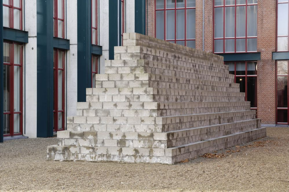 Sculpure 'Long Pyramid' by Sol LeWitt, at the Bonnefantenmuseum in Maastricht